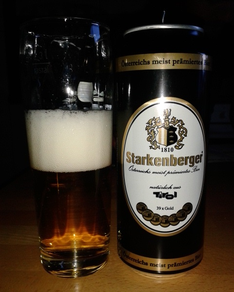 Starkenberger Bier (.50 liter can + unrelated glass)